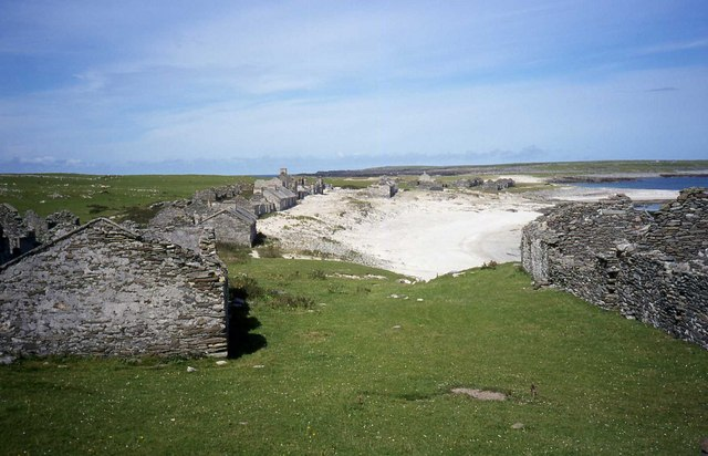 Inishkea South Island. Old village.